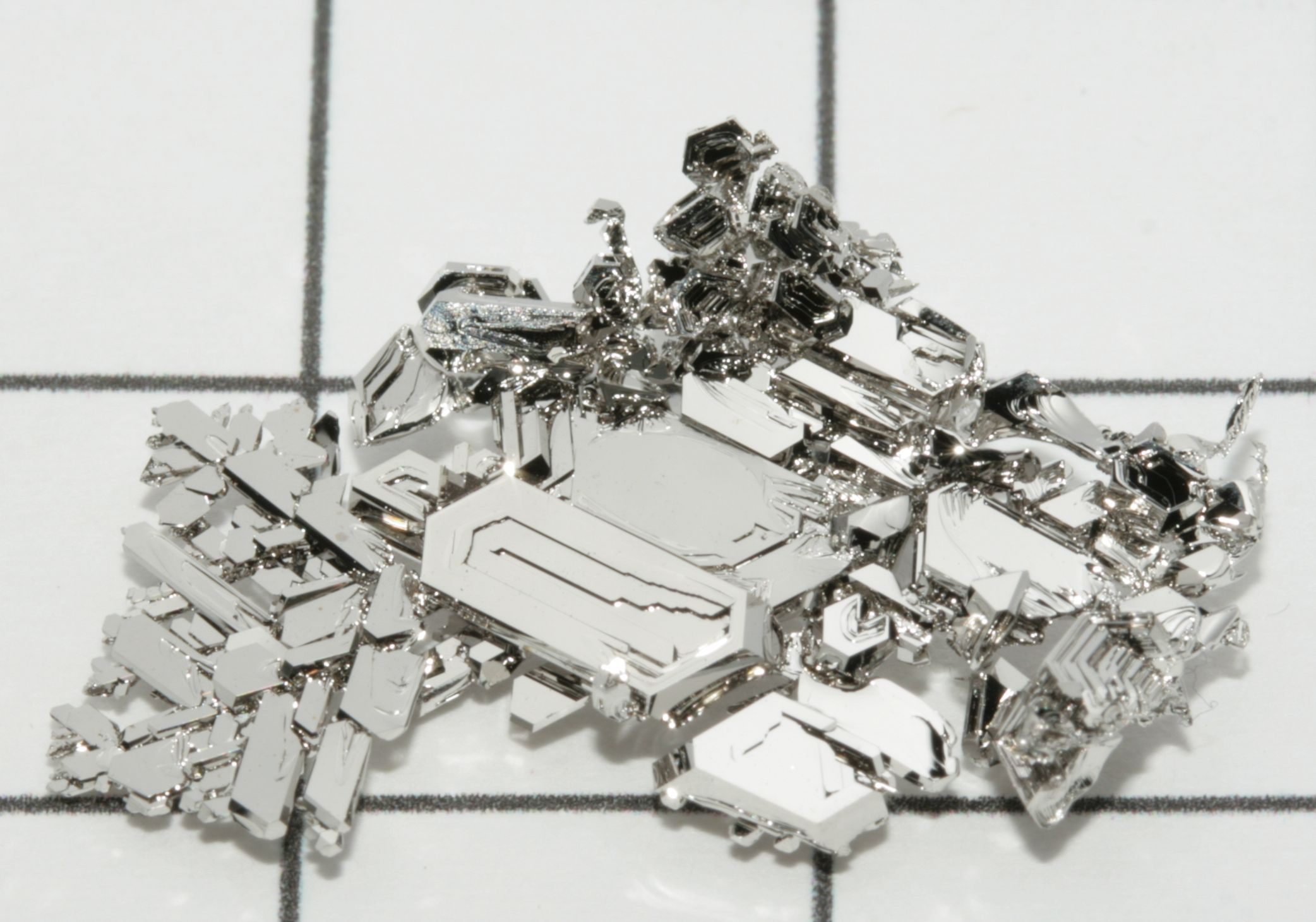 Crystals of pure platinum grown by gas phase transport.